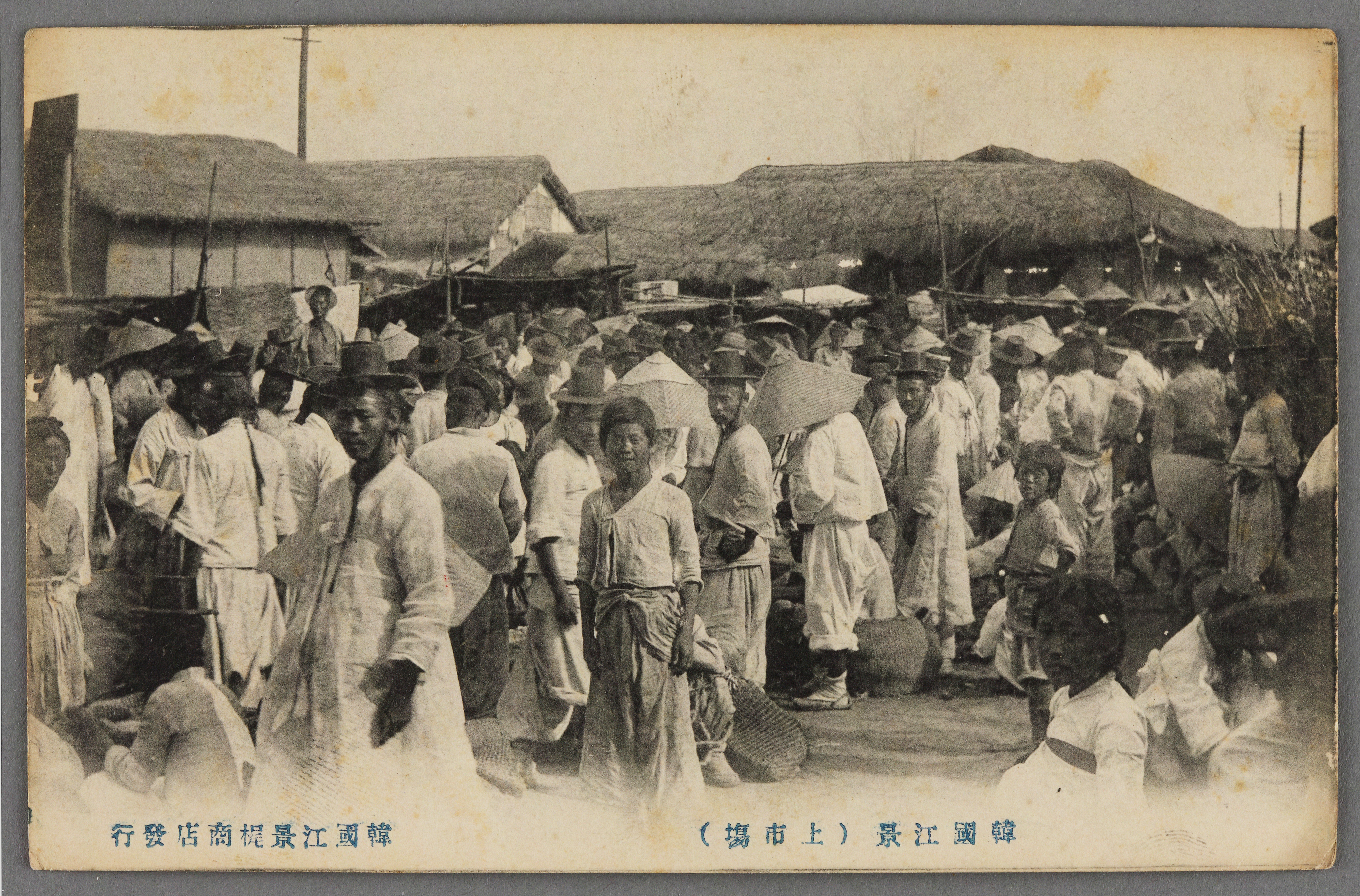 Postcard showing a bubosang in a farmers’ market in Nonsan, Chungcheongnam-do